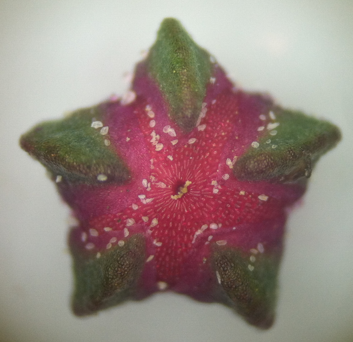 A black seed in a quinoa flower, in the early stages of developing (and thus appearing purple). Green sepals are visible surrounding the seed and holding it in the flower.